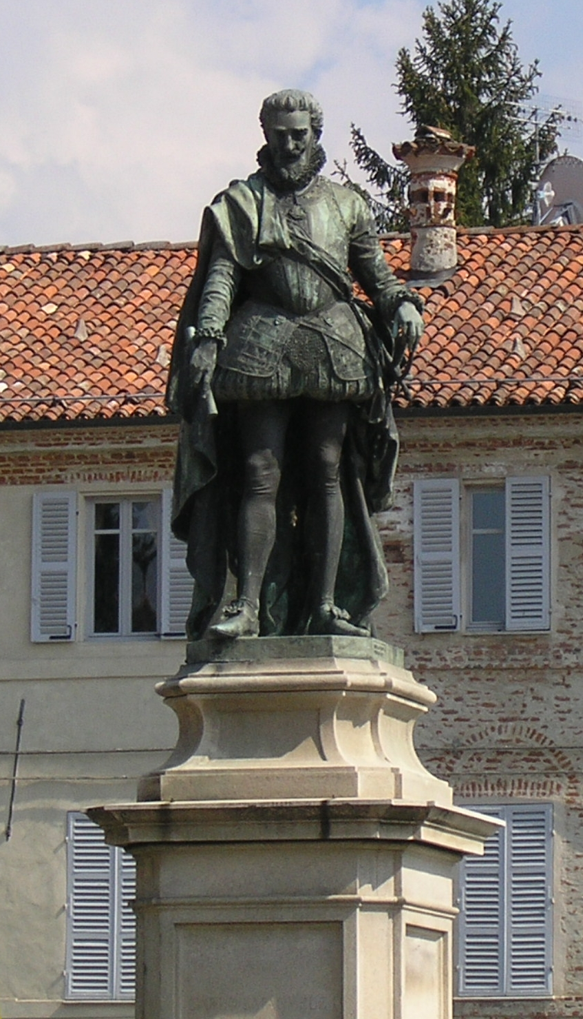 Statue of Charles Emmanuel I, Duke of Savoy, a Vicoforte (Italy)